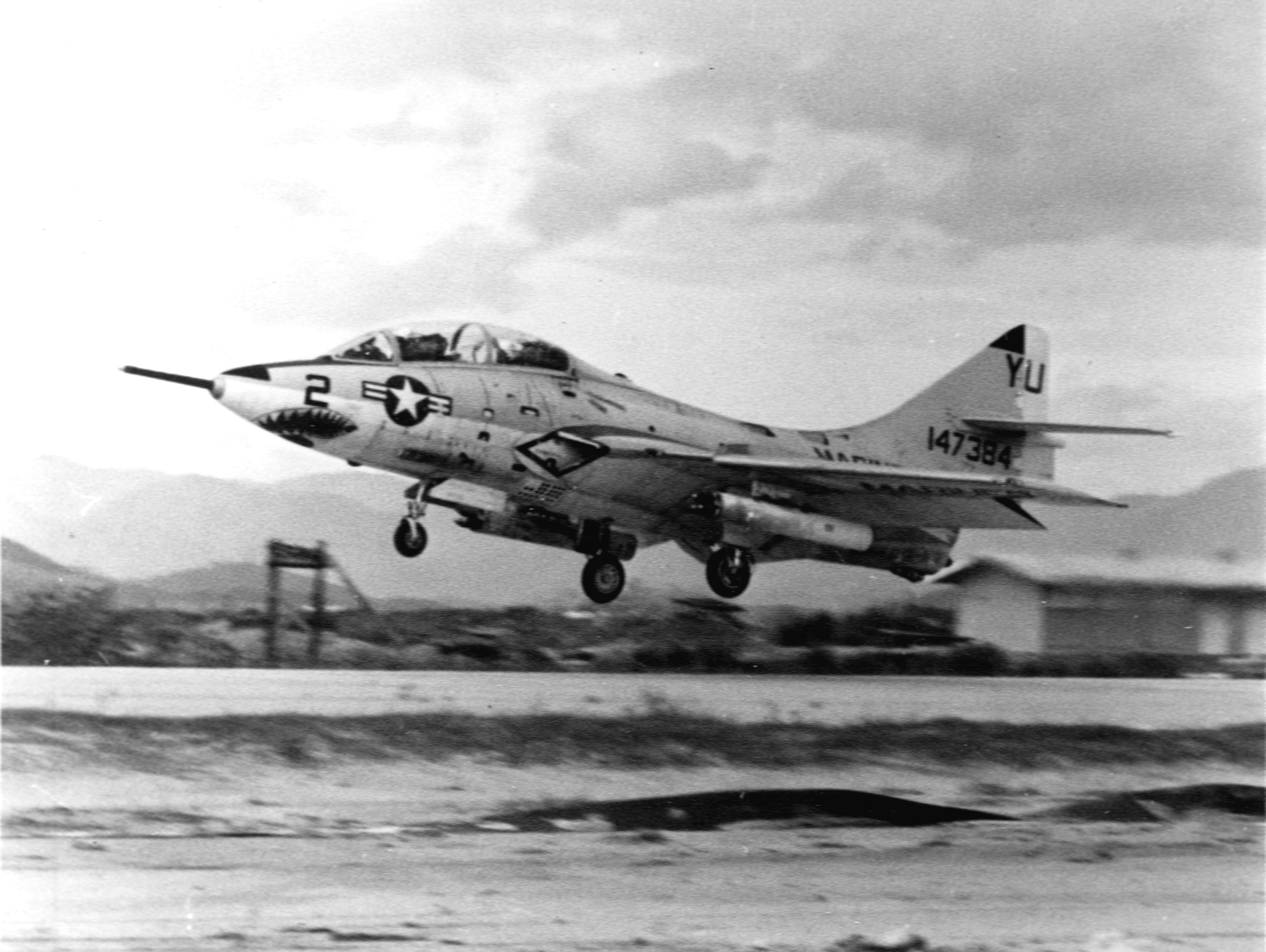 A U.S. Marine Corps Grumman TF-9J Cougar (BuNo 147384) of Headquarters and Maintenance Squadron 13 (H&MS-13) at Chu Lai, Vietnam. H&MS-11 and H&MS-13 used the Cougar as a fast forward air control aircraft until being replaced by the Douglas TA-4F Skyhawk. This was the only combat use of the Cougar which was in service from 1952 to 1974.